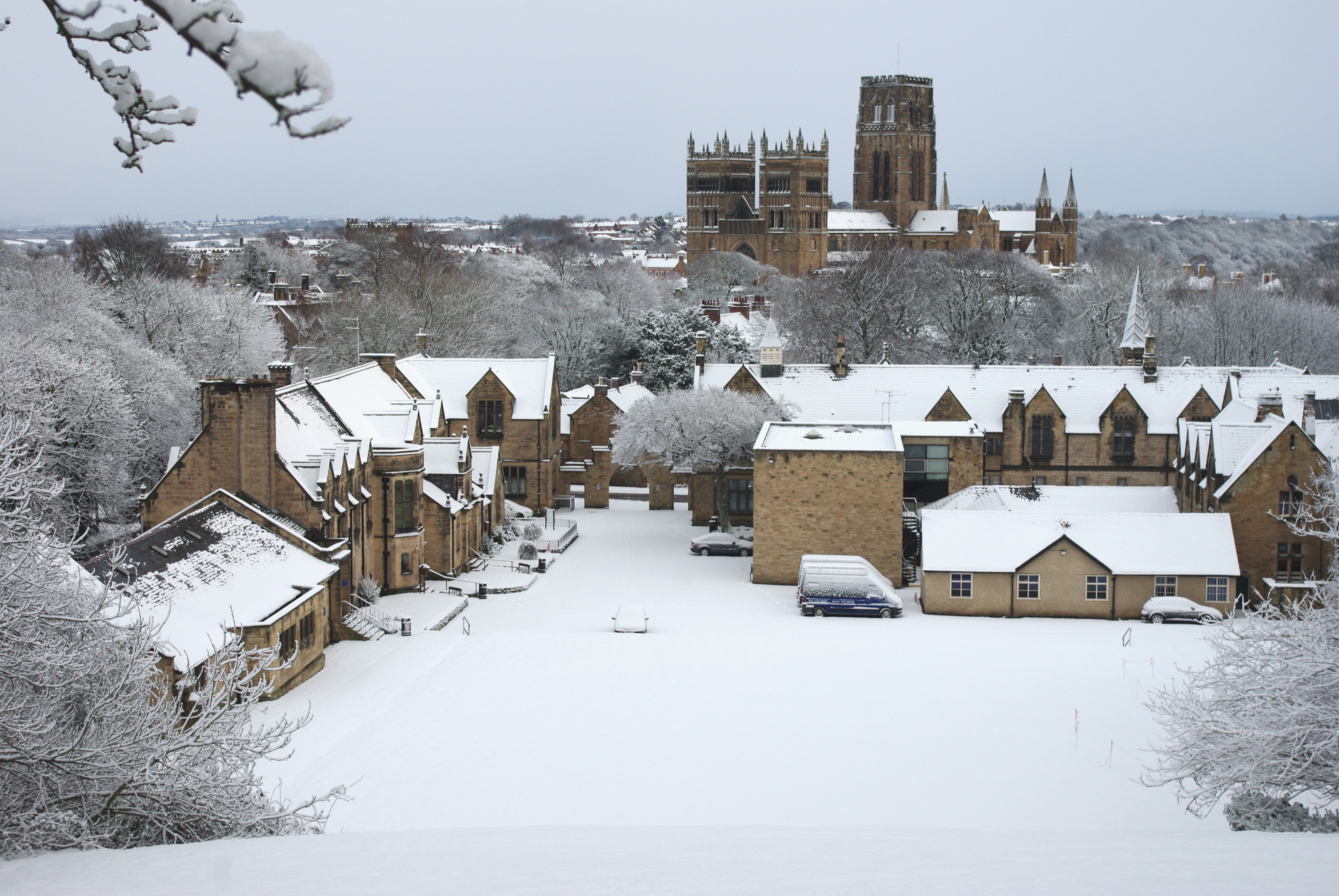 Durham School in snow, with Durham Cathedral in the background